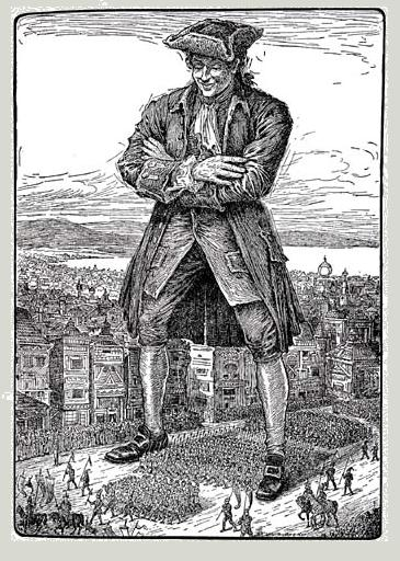 by Jonathan Swift; illustrated by Louis Rhead; published by Harper Brothers 1913